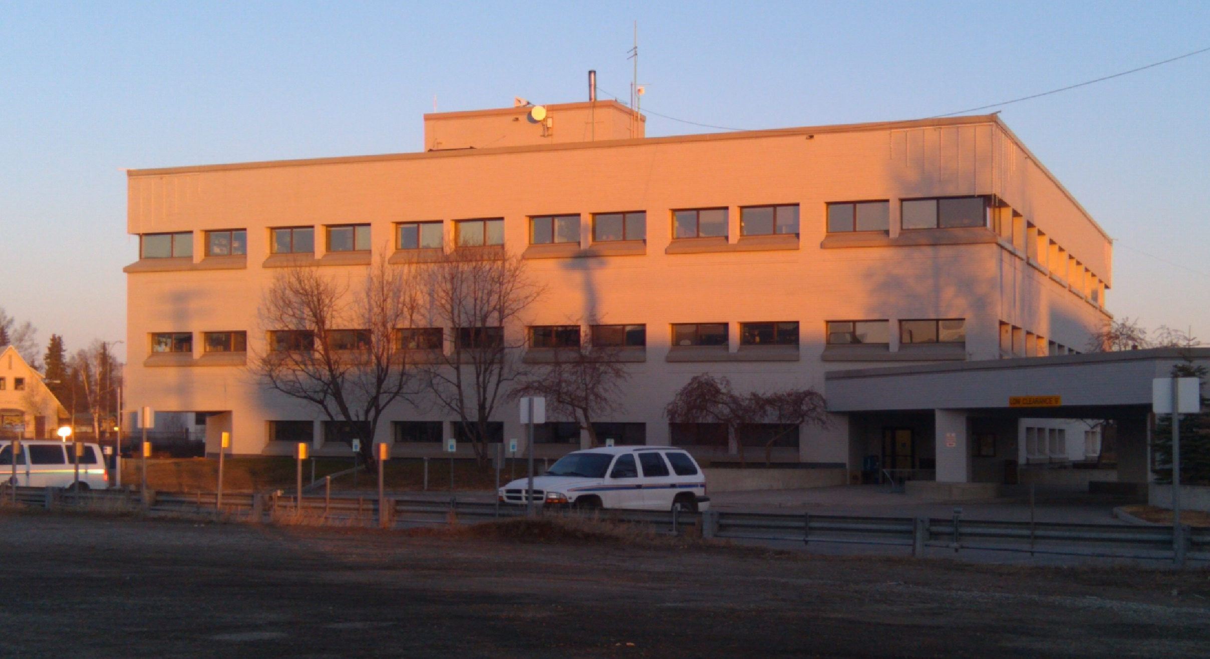 The Fairbanks North Star Borough Administrative Center, located at 809 Pioneer Road in downtown Fairbanks, Alaska. The Fairbanks North Star Borough is a municipal government which was incorporated in 1964. This building was constructed in the 1980s. In 2015, it was named in honor of Juanita Helms (1941–2009), who was the borough's mayor from 1985 to 1991.